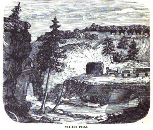 19th-century depiction of the Nay Aug Falls on Roaring Brook